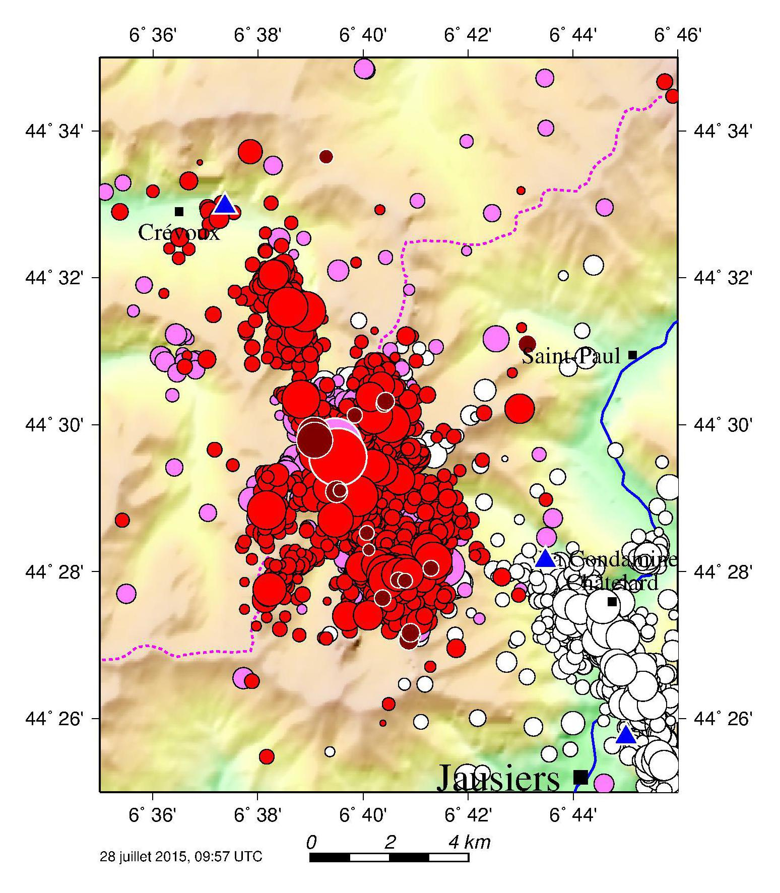 Ubaye earthquake swarms. White: 2003–2004 swarm; pink: 2012–2015 swarm up to 2014-04-06; red: earthquakes as of 2014-04-07; pink and red lined up in white: epicentres of 2012-02-26 earthquake(M4.3) and 2014-04-07 earthquake (M4.8); brown: latest 20 earthquakes in July 2015, just before the map was drawn. Symbol size directly proportional to magnitude. Blue triangles show the 3 nearest seismic stations.